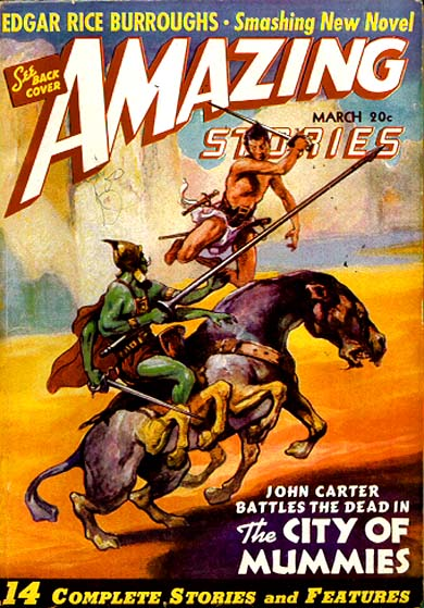 Cover of Amazing Stories, March 1941